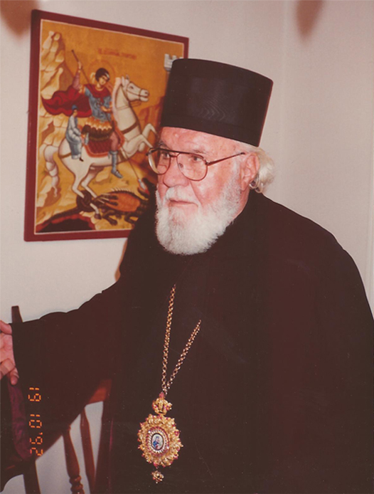 Metropolitan Bishop Irinej Kovačević in 1992.